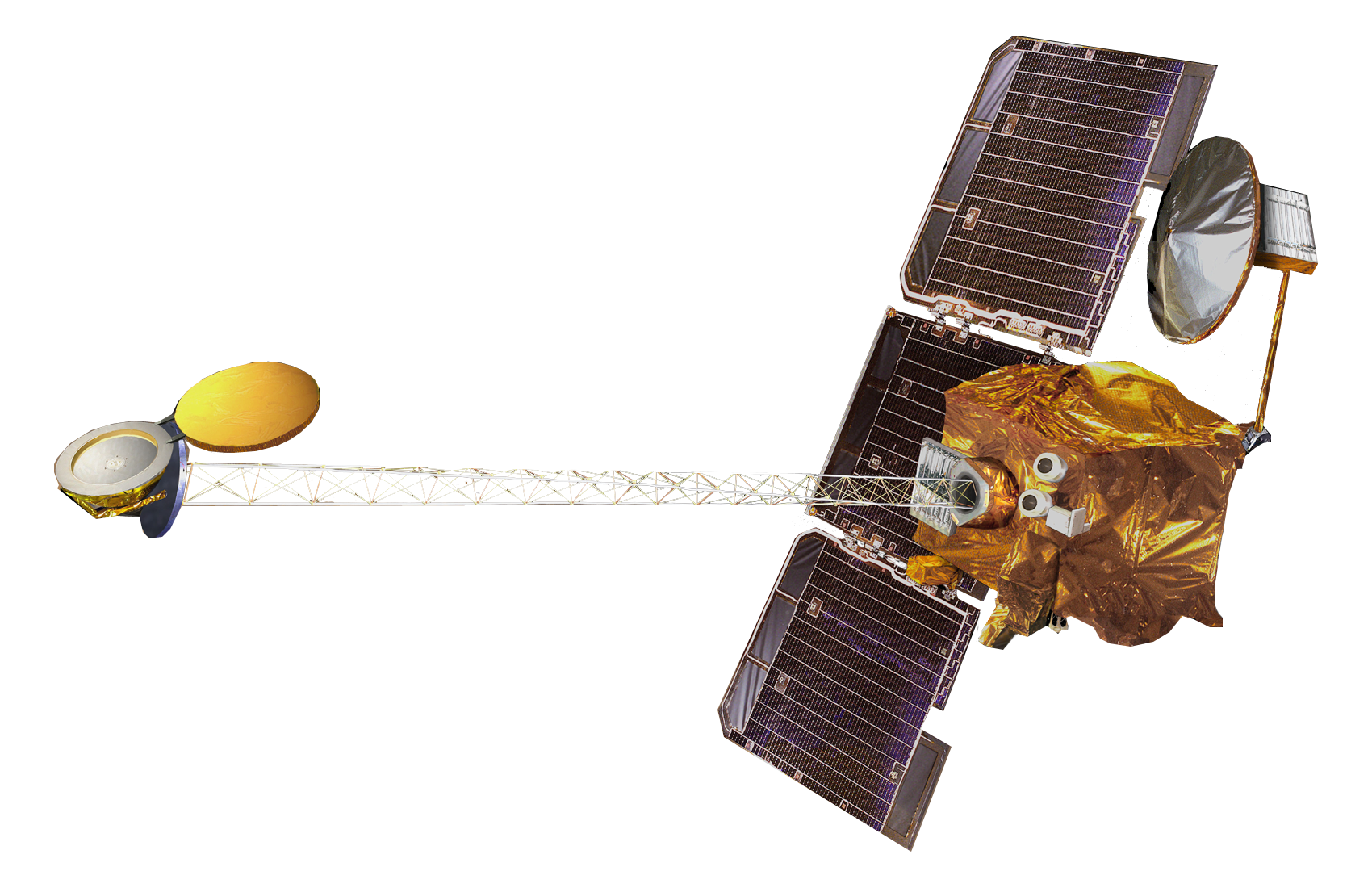 Artist's rendering, from NASA, of the 2001 Mars Odyssey spacecraft, in mission configuration. The Mars Odyssey mission, executed from orbit of the planet Mars, focused on astrobiology stuides from orbit, and consistent monitoring of the planet's environment.